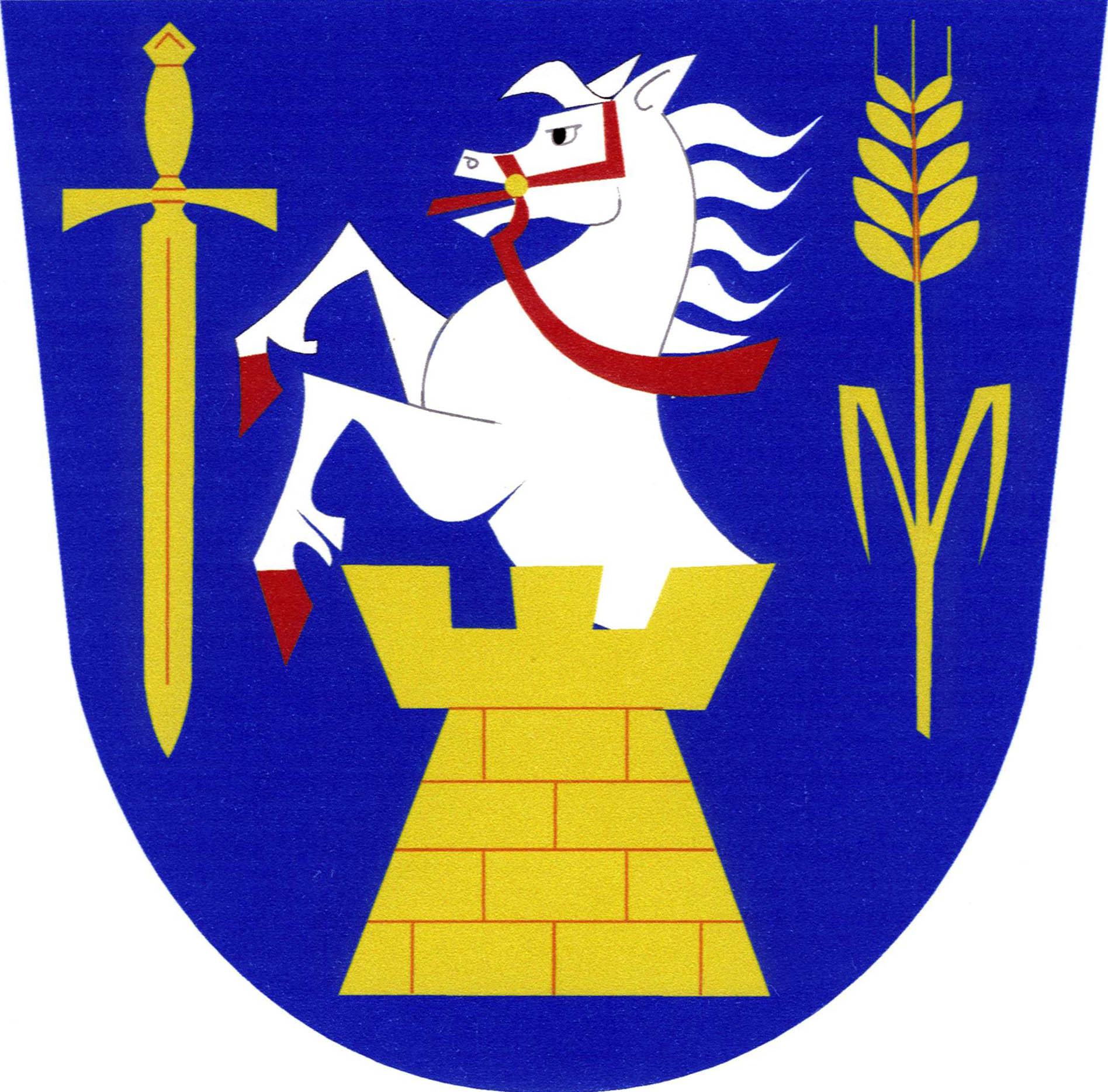 Municipal coat of arms of Borotice village, Znojmo District, Czech Republic.